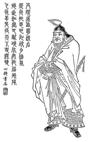 Qing dynasty portrait of Yan Yan